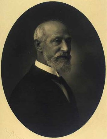 Andreas Christoph Bork, known as André Bork (1854-1932), Danish xylographer